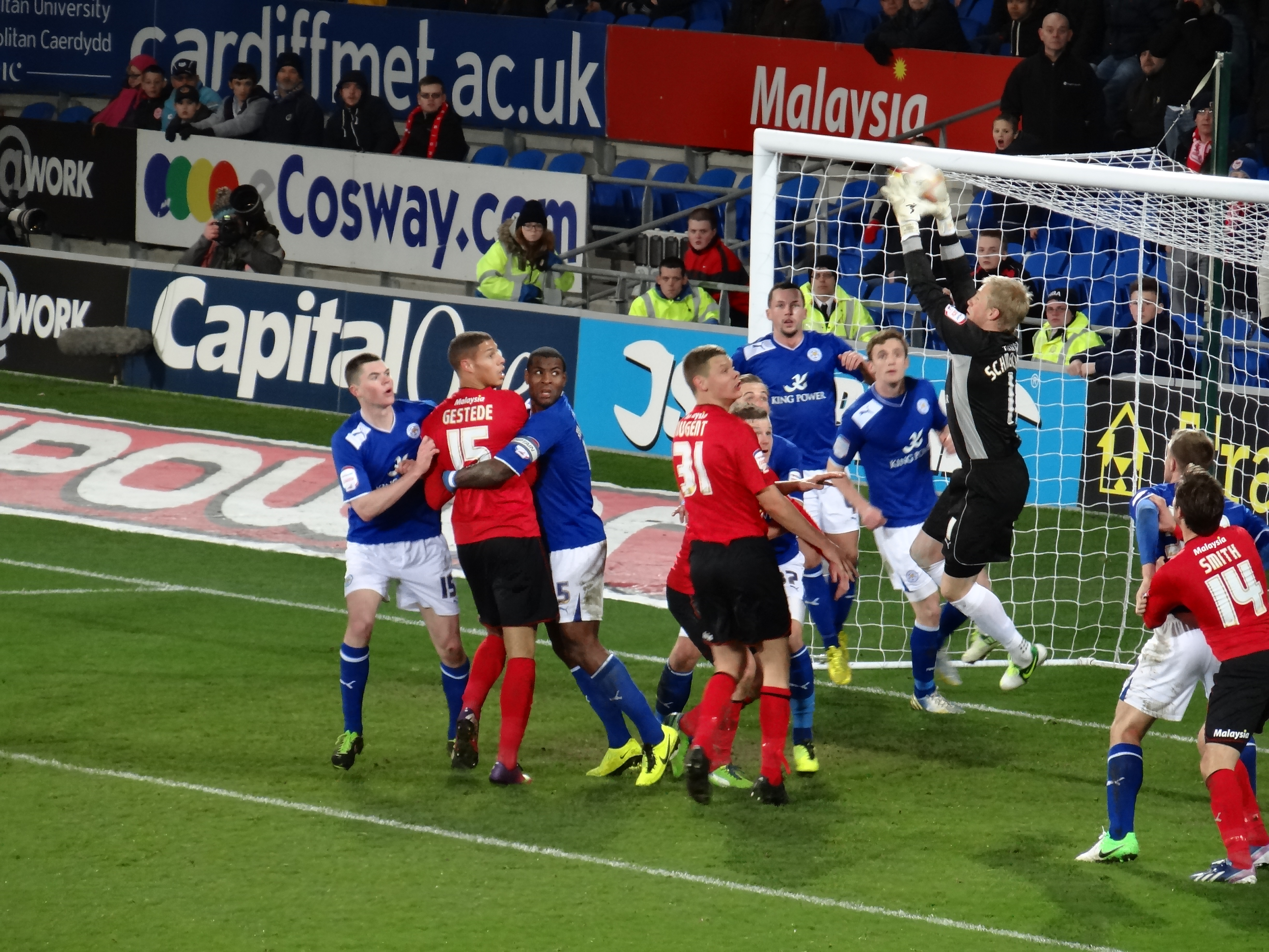 12/03/13 Cardiff v Leicester, Championship, Cardiff City Stadium, Cardiff, Wales